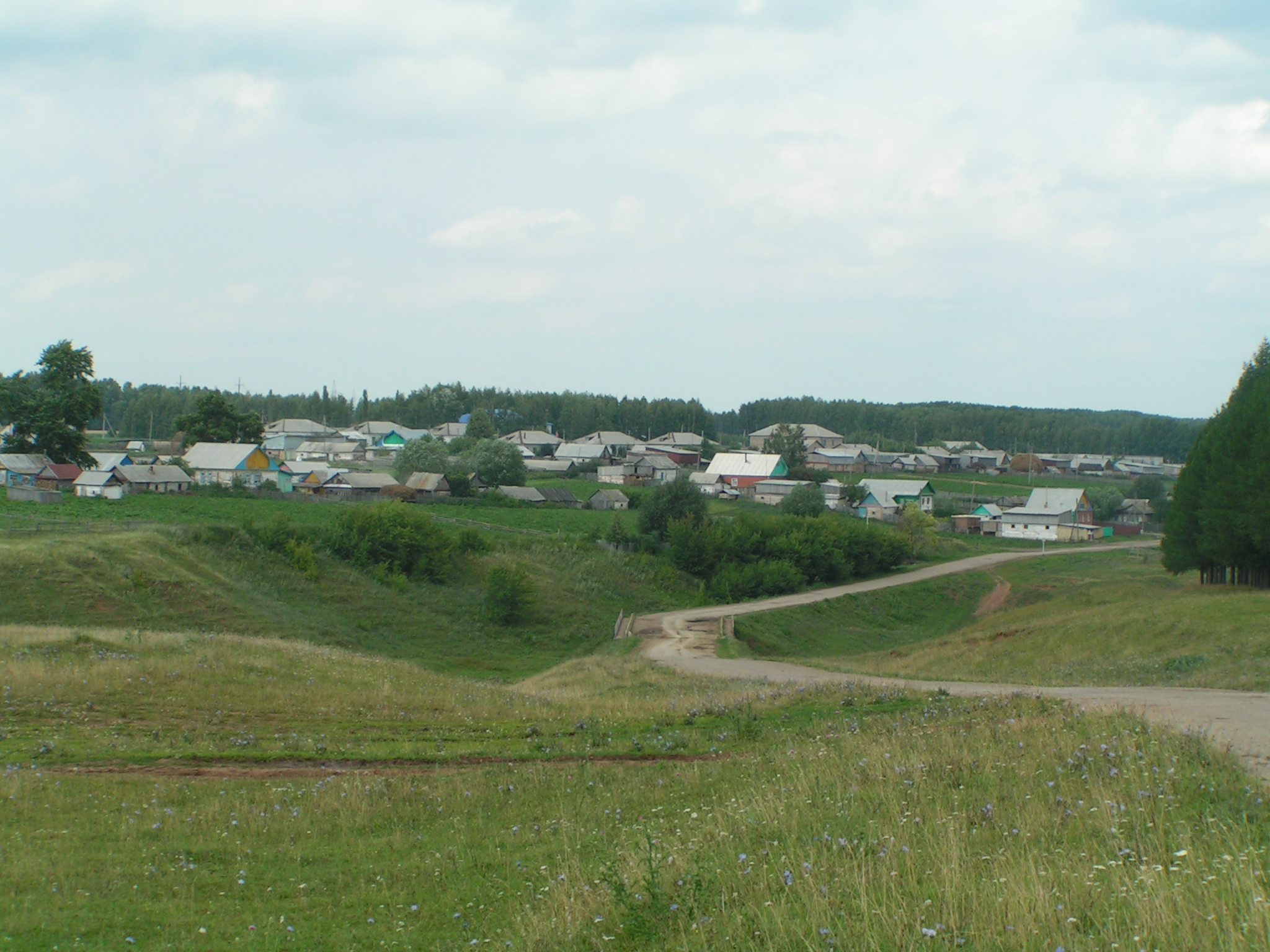 Village Dyurtyuli in the Sharan rayon of Bashkortostan.